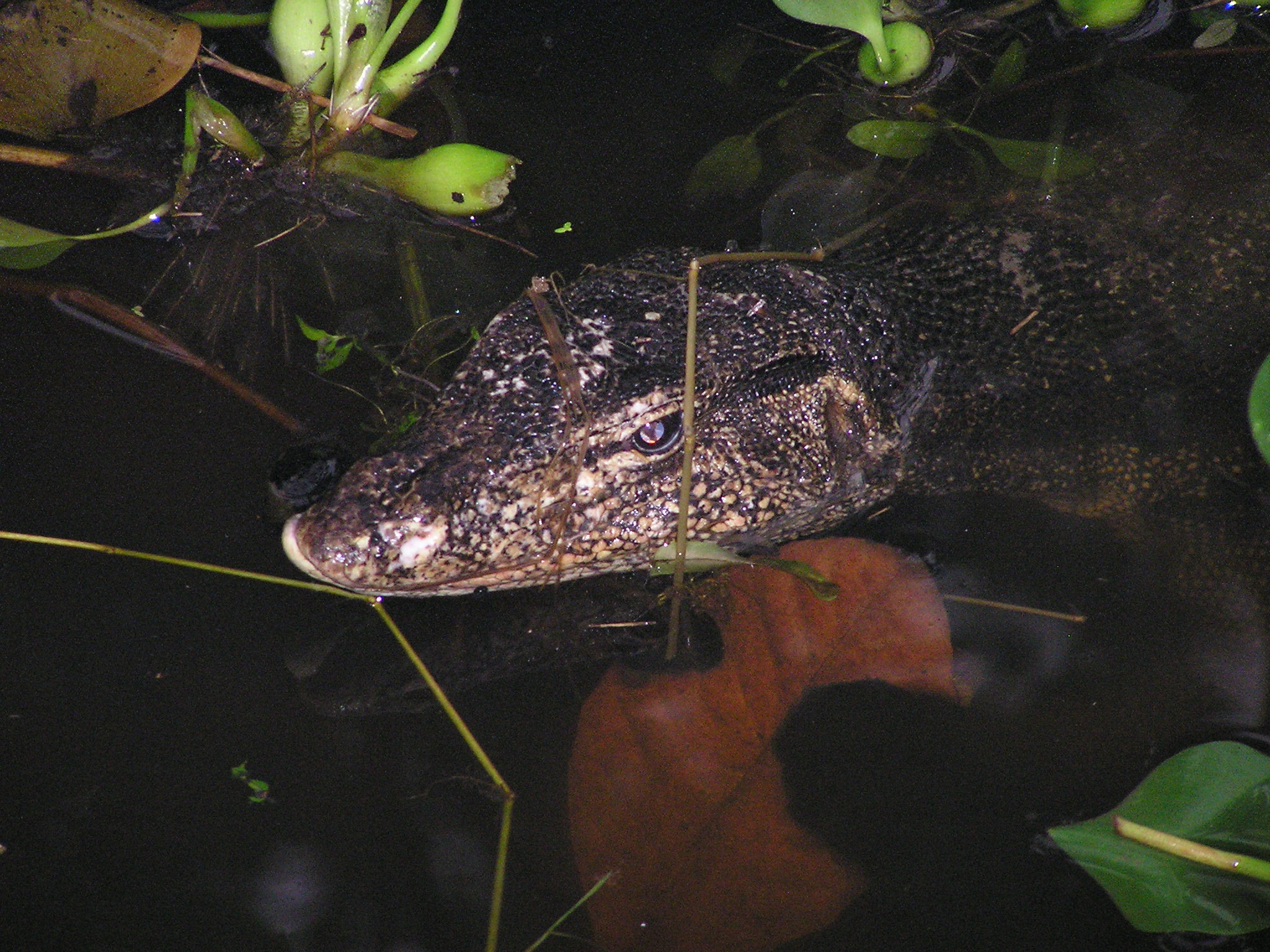 A water monitor (Varanus salvator) in the Sungei Buloh Wetland Reserve, Singapore.